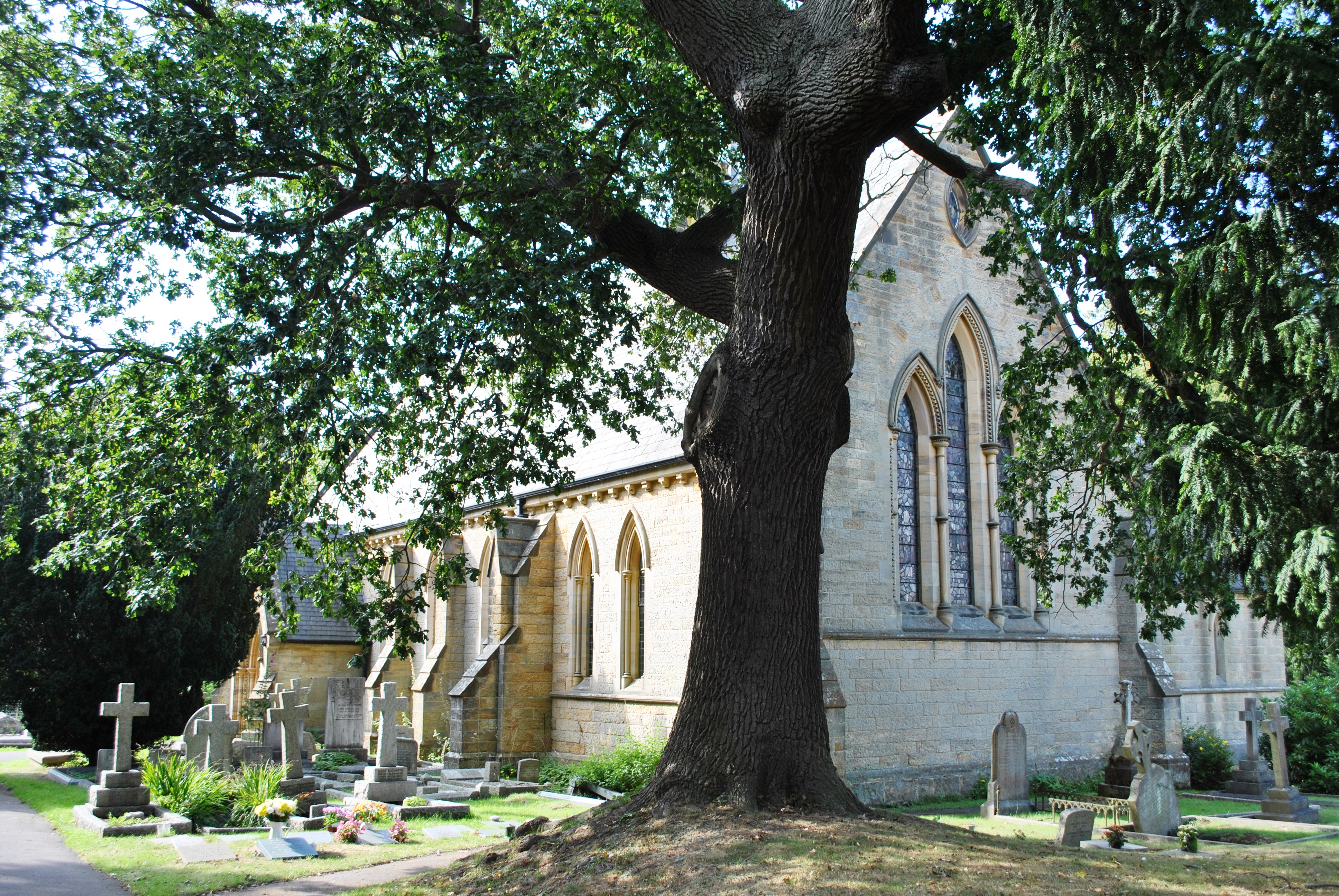 Fordcombe